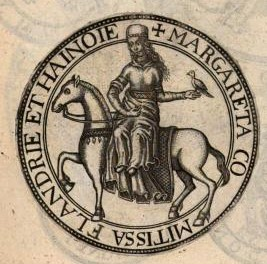 Margaret I of Flanders